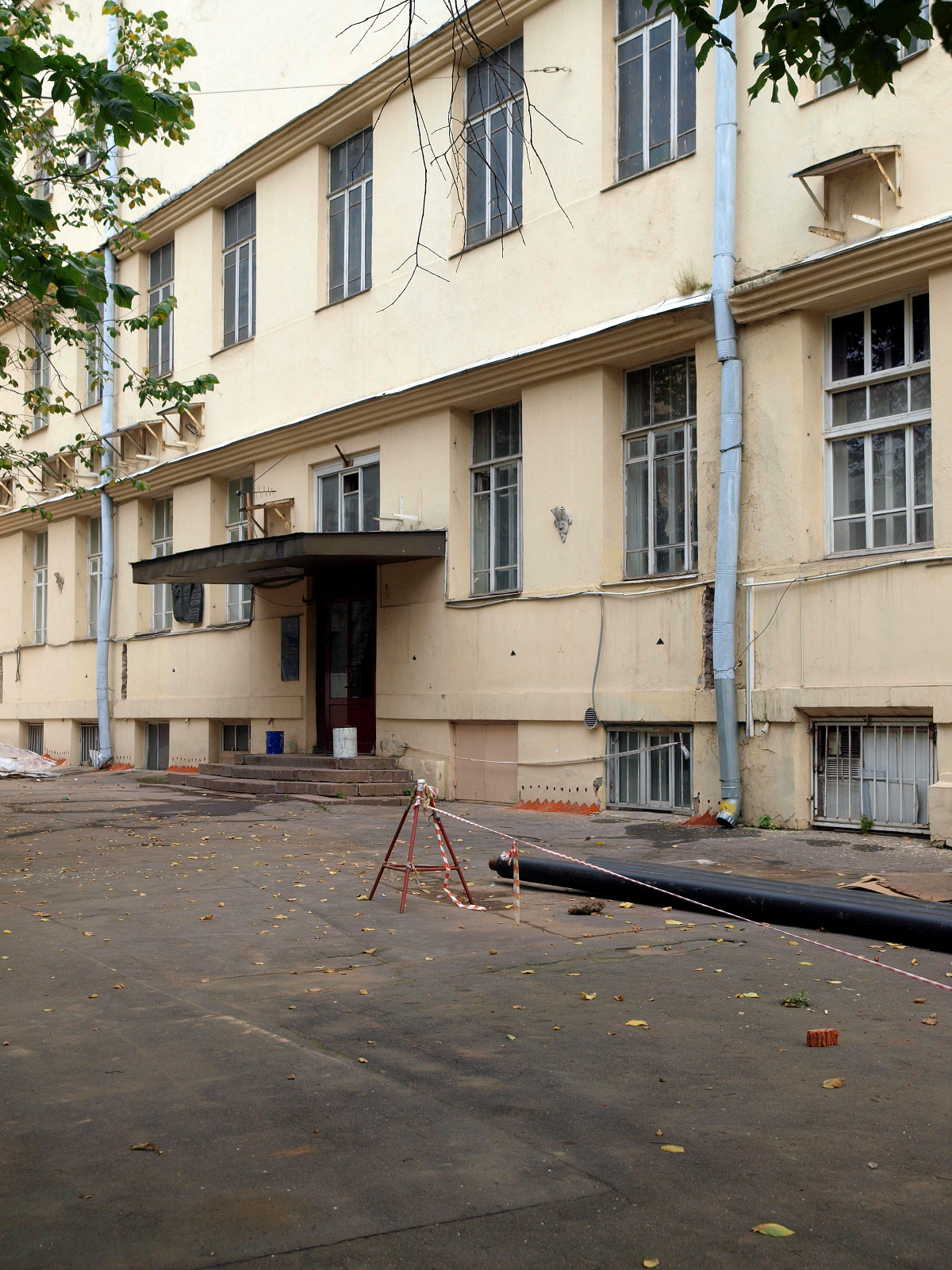 Likhov Lane, Moscow.